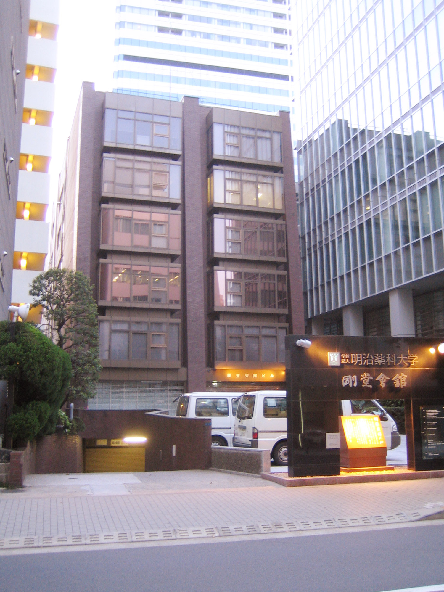 Gōdō Kaikan (剛堂会館) of the Meiji Pharmaceutical University (明治薬科大学 Meiji Yakka Daigaku), in Chiyoda, Tokyo, Japan